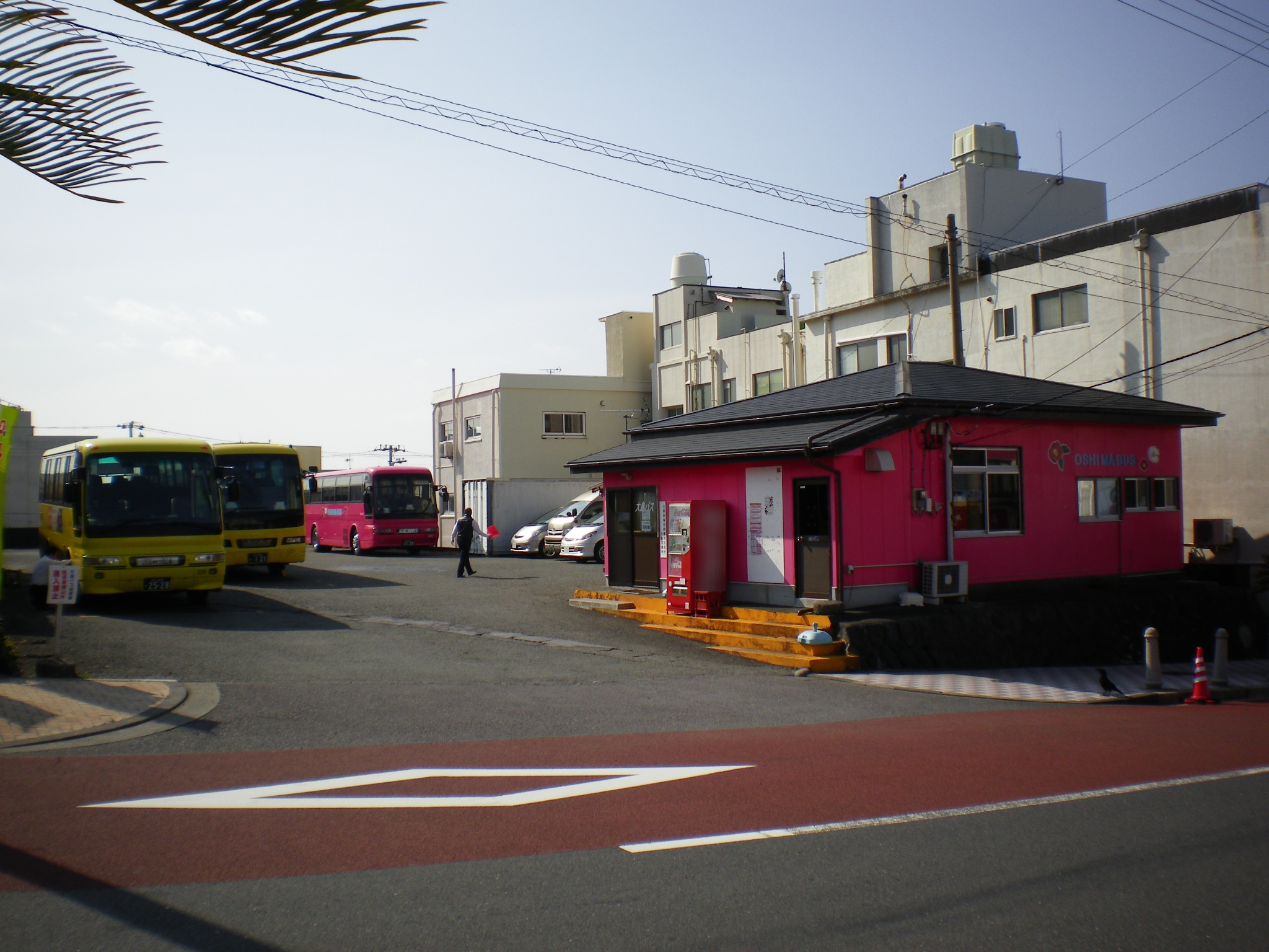 This is the head office of Oshima Bus, Japan.